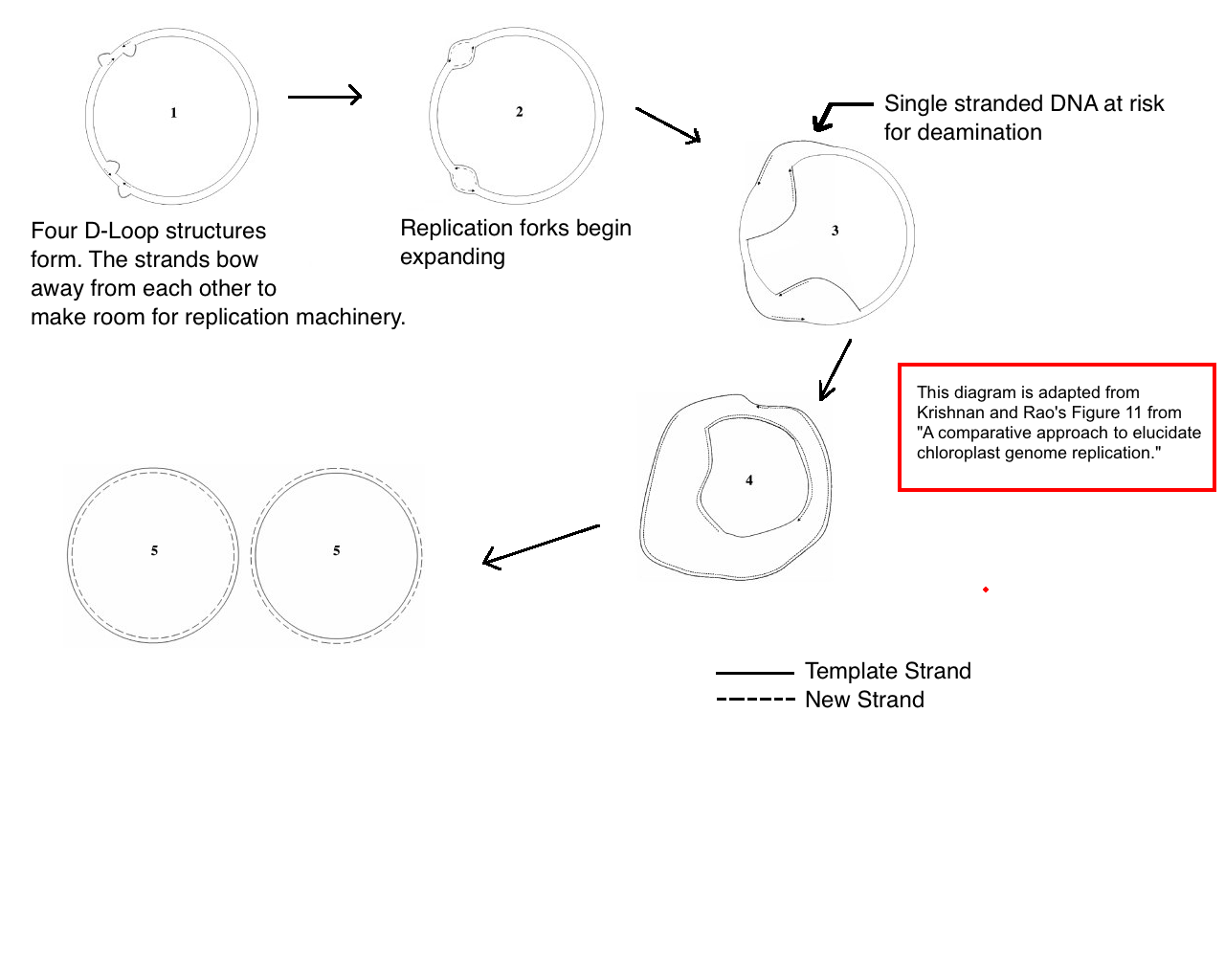 Chloroplast DNA replication. Adapted from Krishnan NM, Rao BJ's paper "A comparative approach to elucidate chloroplast genome replication."